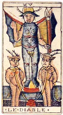 An original card from the tarot deck of Jean Dodal of Lyon, a classic Tarot of Marseilles deck which dates from 1701-1715.